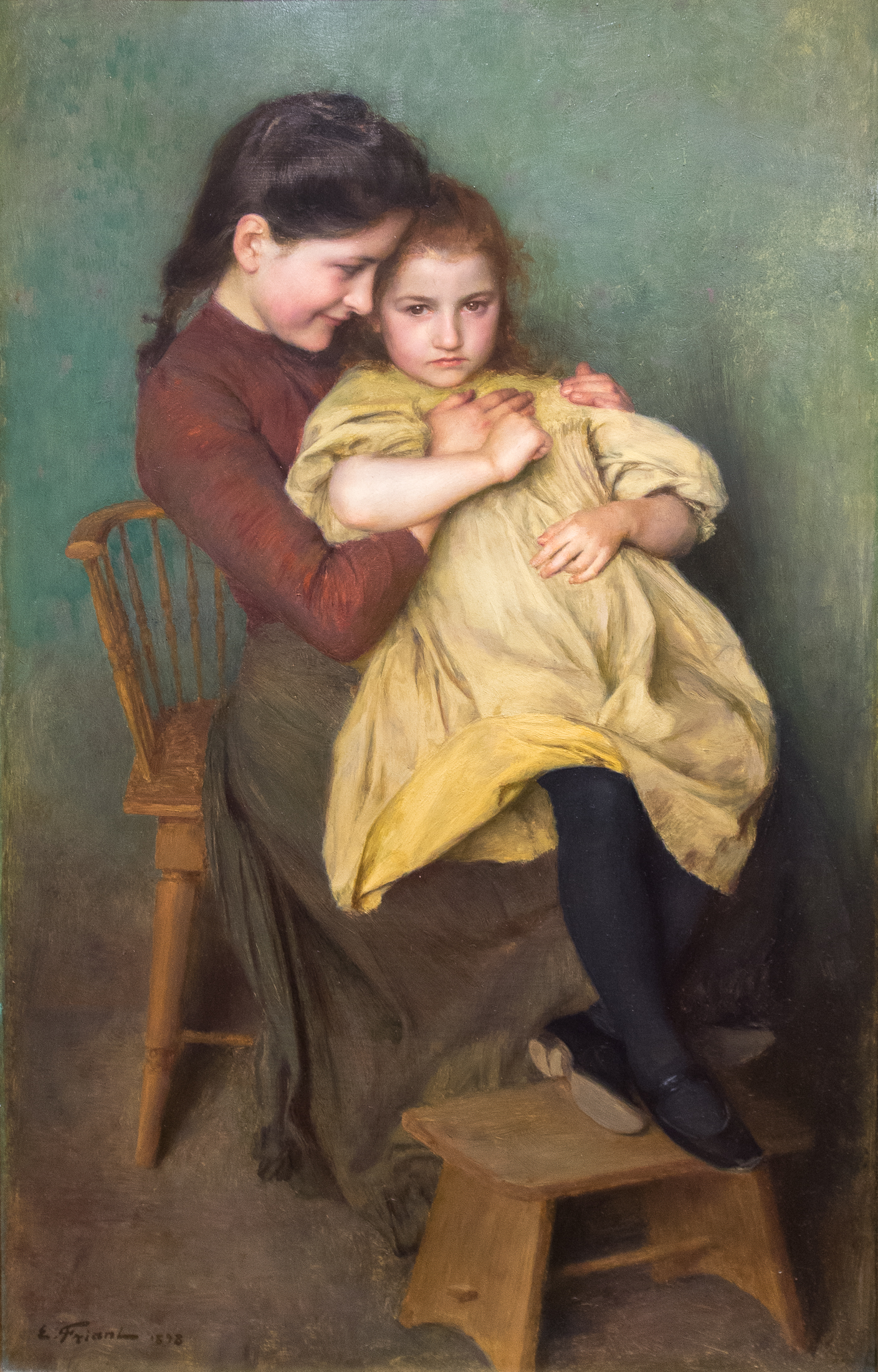 Photo of Chagrin d'Enfant by Emile Friant from the Frick Art Museum